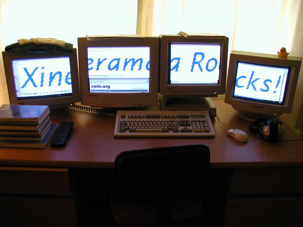 Xinerama displaying a single instance of xfig across four monitors